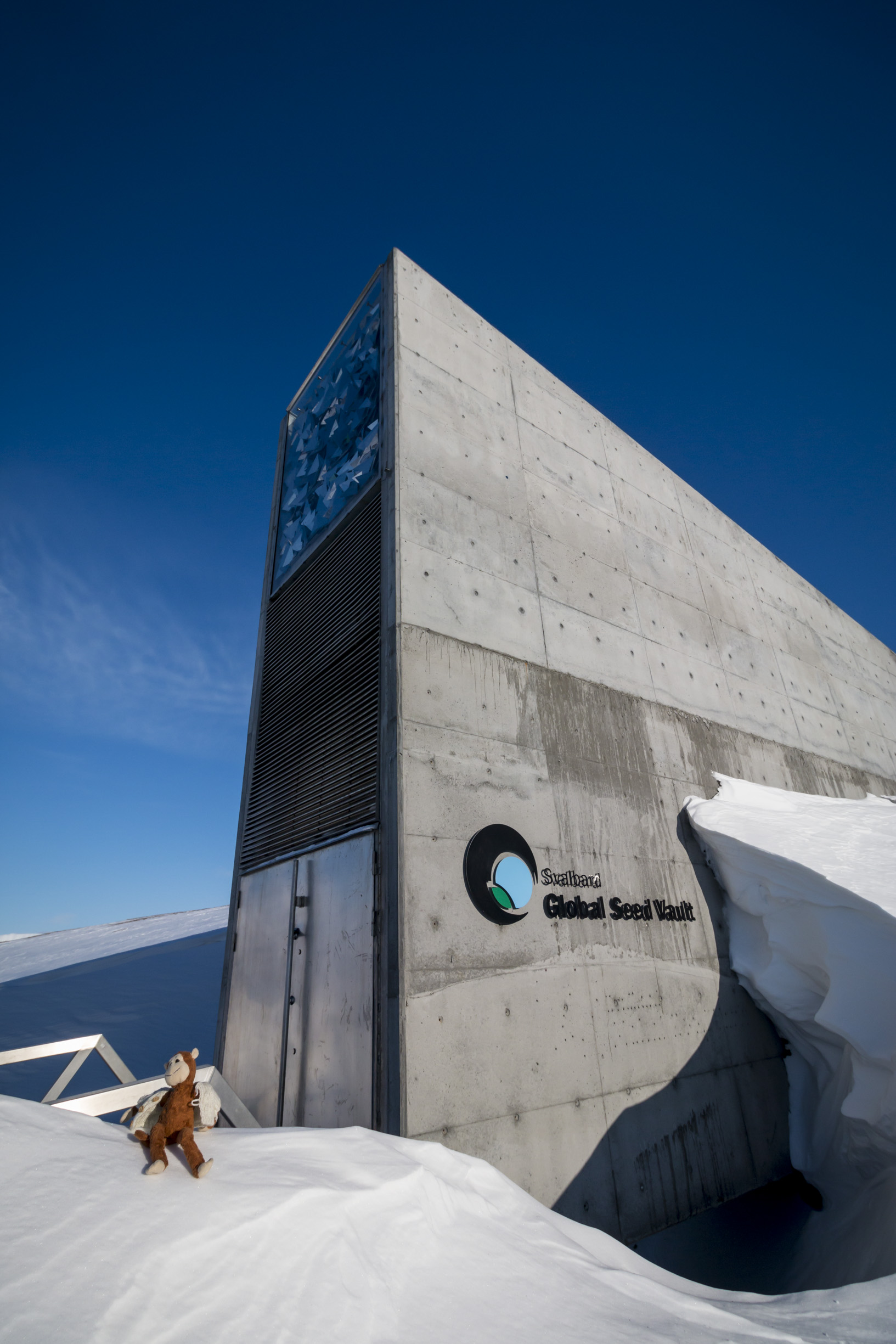 Entrance to the Global Seed Vault on Svalbard. April 2017.